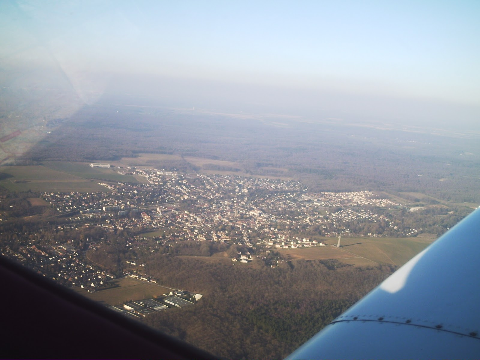 Saint-Arnoult-en-Yvelines from the air